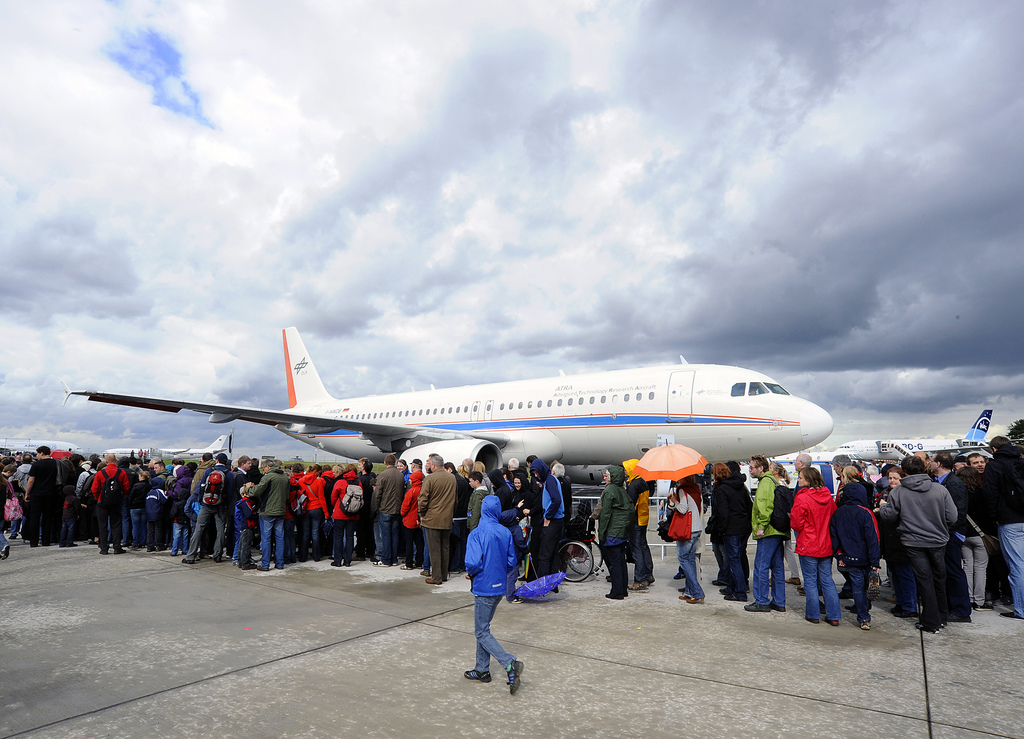 Der jüngste DLR-Forschungsflieger ATRA. Mit dem neuesten Forschungsflugzeug ATRA wird das DLR die Lärmreduzierung, Wirbelschleppen und Anflugführung erforschen. Bild: DLR (CC-BY 3.0).